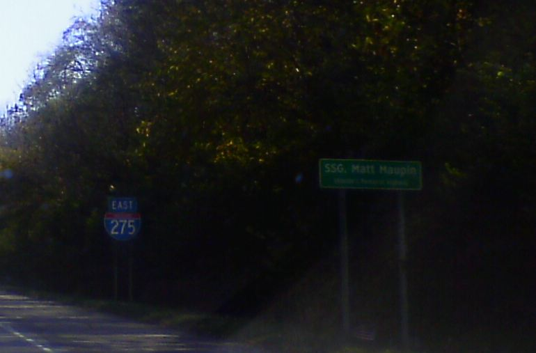 I-275 near Loveland, OH